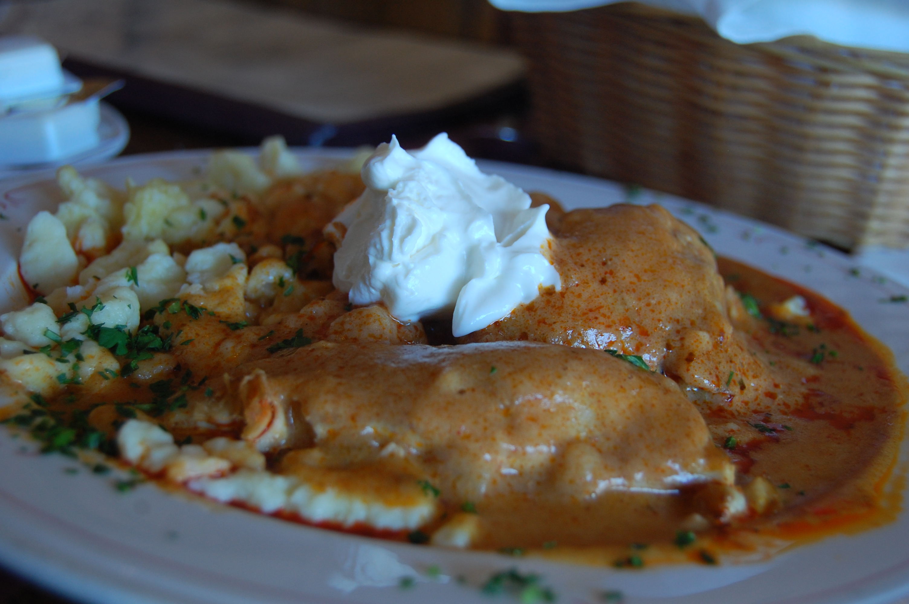 Chicken paprikash